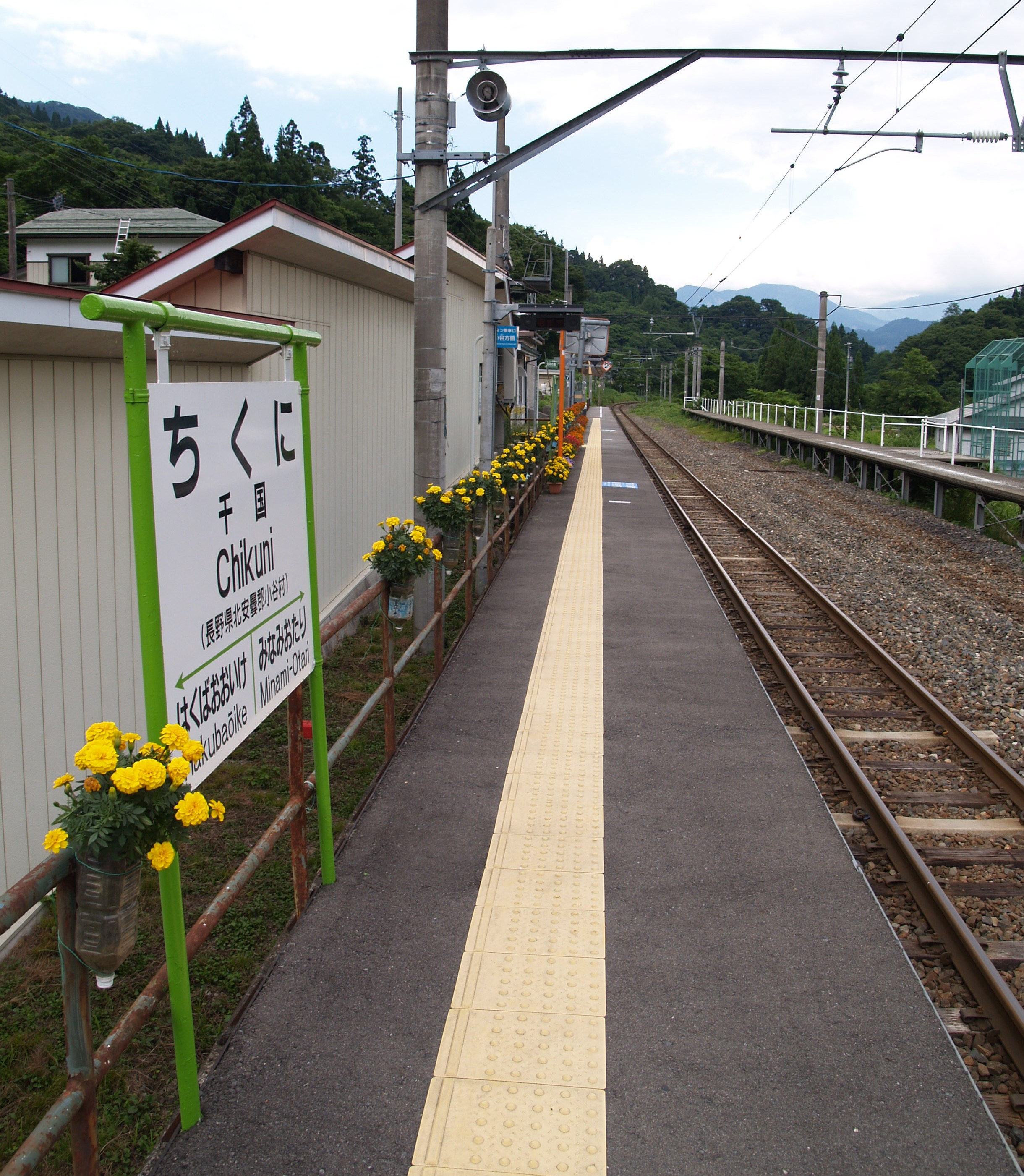 Chikuni Station platform